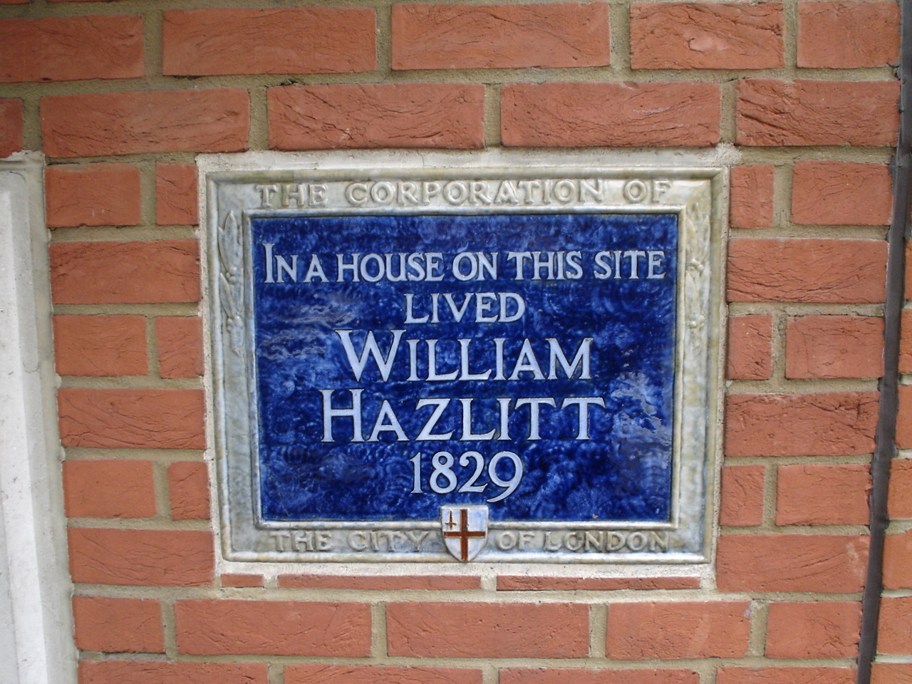 Plaque in Bouverie Street, London, commemorating the writer William Hazlitt.